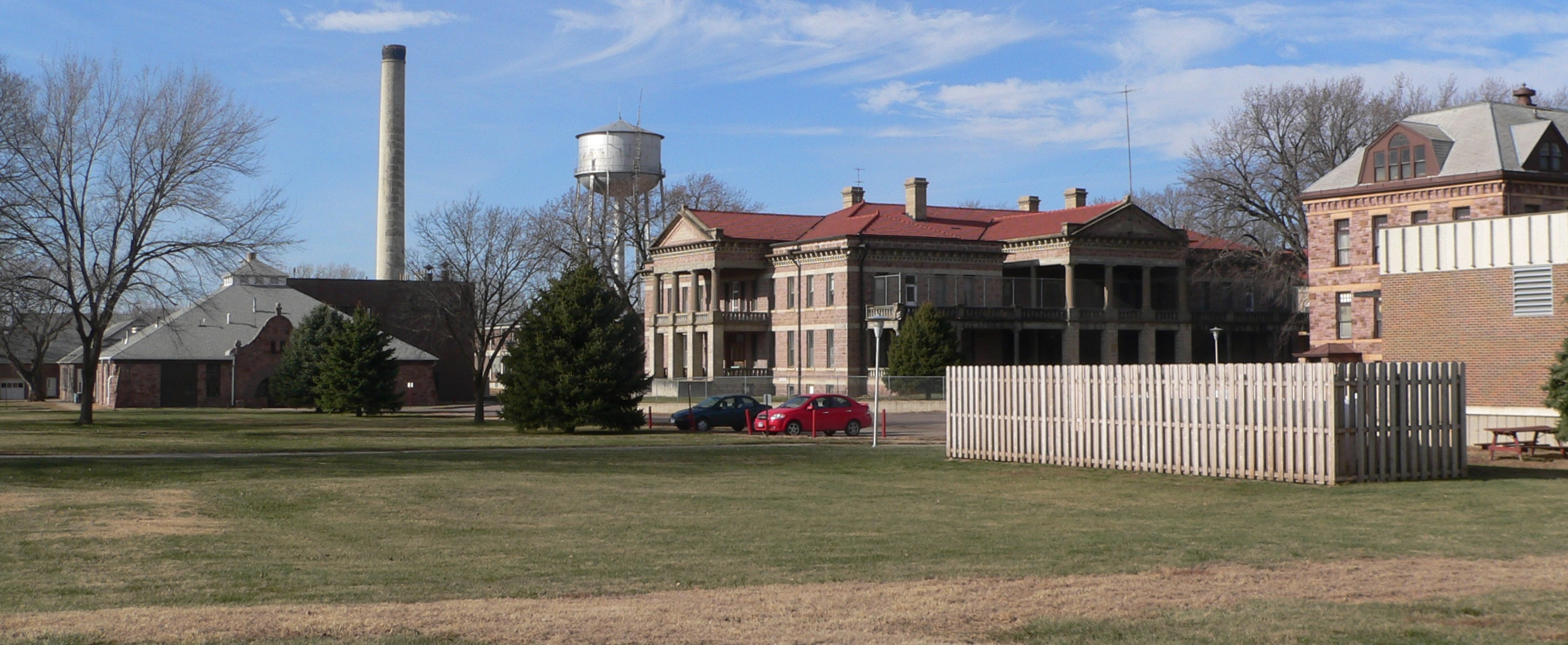 Buildings at Human Services Center, located at northwestern outskirts of Yankton, South Dakota. The Center is listed in the National Register of Historic Places.